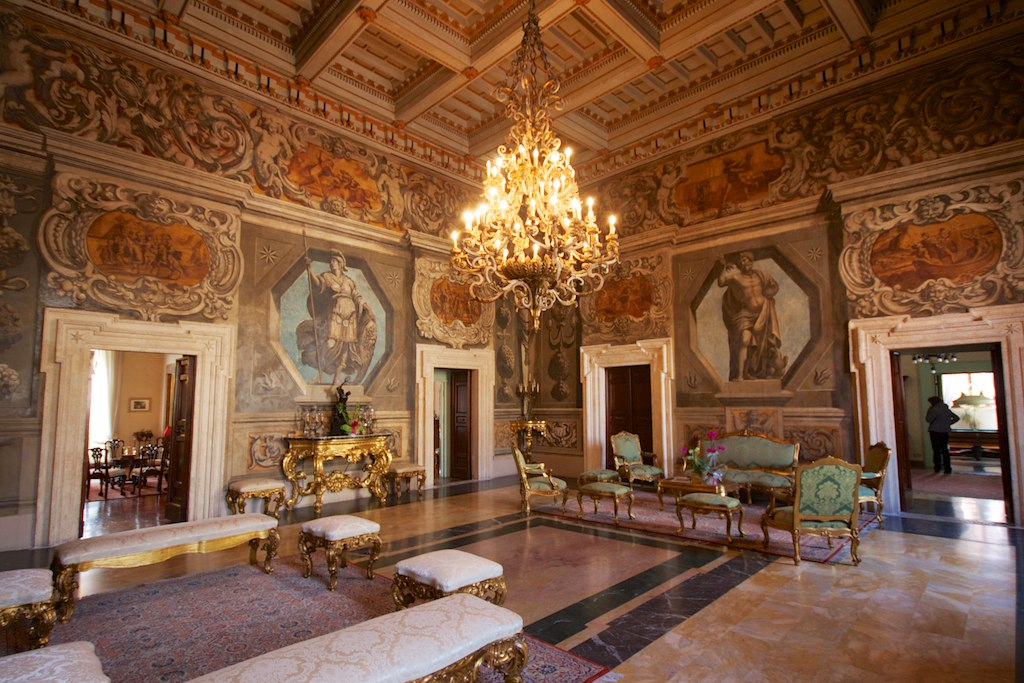 Interior of Palazzo Vincentini, currently home to the Prefettura government office - Rieti (Lazio, Italy)